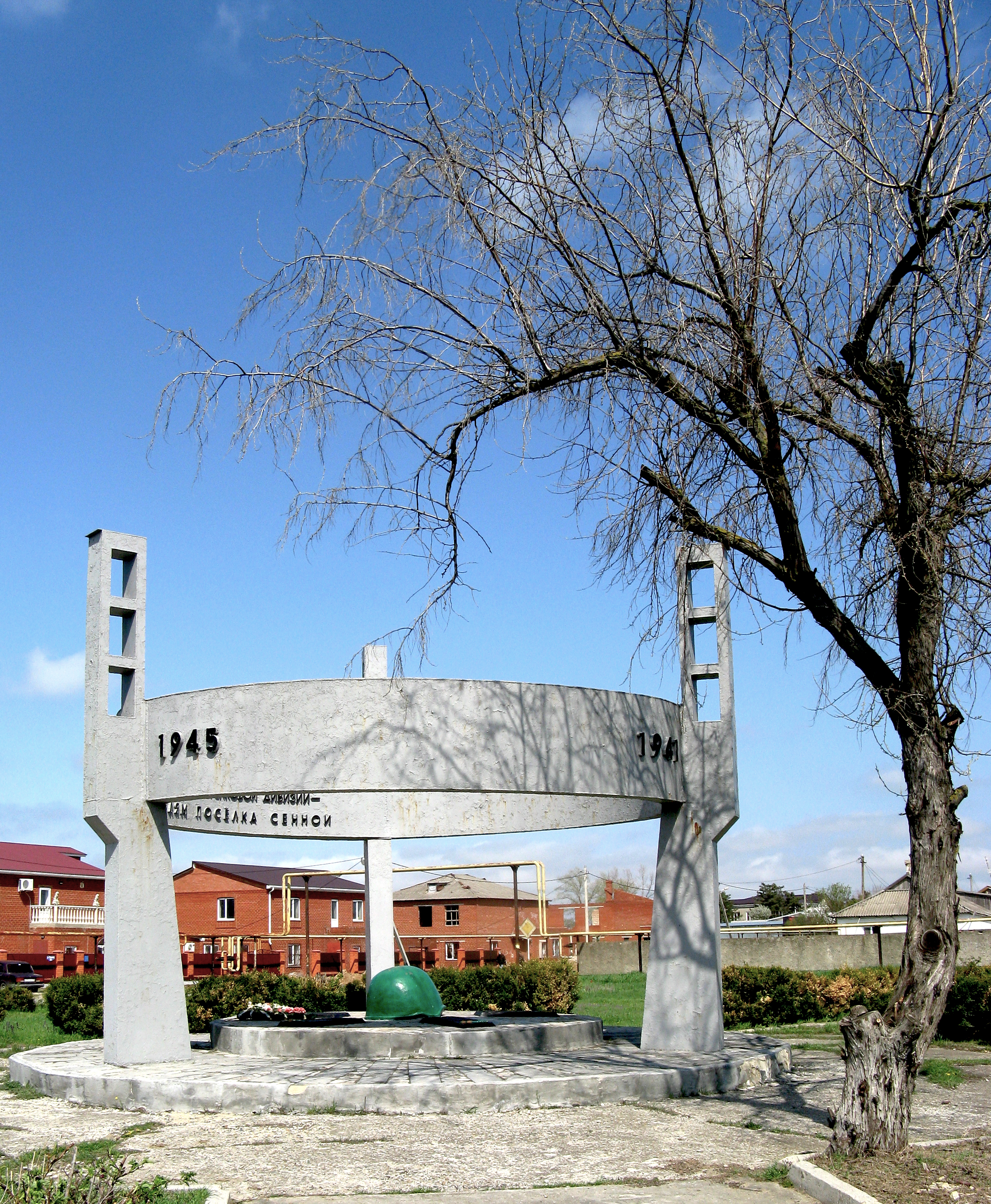 The memorial devoted to war 1941-1945. (village Sennoi in (Temryuksky District (Russia)).